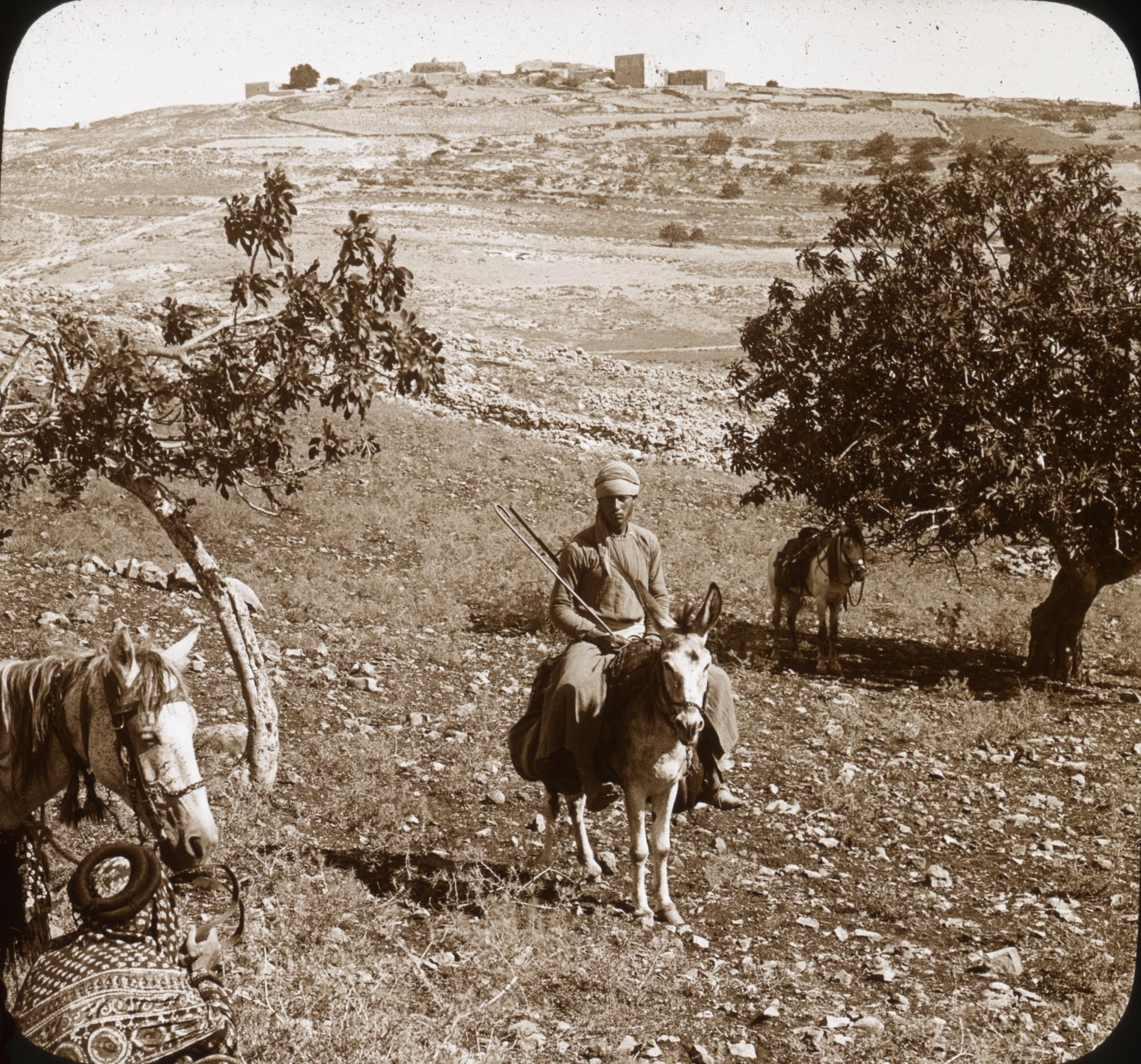 Image Description from historic lecture booklet: "A few miles to the south of Bethel, we reach another storied hill, Ramah. Here in answer to prayer was born the child Samuel, before his birth set apart for the service of Jehovah, the God of Israel. His childhood was passed at Shilow in the tabernacle; but during his manhood and to the close of his long life his home was here at Ramah. Here Saul was anointed to be king of Israel, and from this place the prophet afterward went to Bethlehem to anoint David as Saul's successor." Original Collection: Visual Instruction Department Lantern Slides Item Number: P217:set 013 024 You can find this image by searching for the item number by clicking here. Want more? You can find more digital resources online. We're happy for you to share this digital image within the spirit of The Commons; however, certain restrictions on high quality reproductions of the original physical version may apply. To read more about what “no known restrictions” means, please visit the Special Collections & Archives website, or contact staff at the OSU Special Collections & Archives Research Center for details.